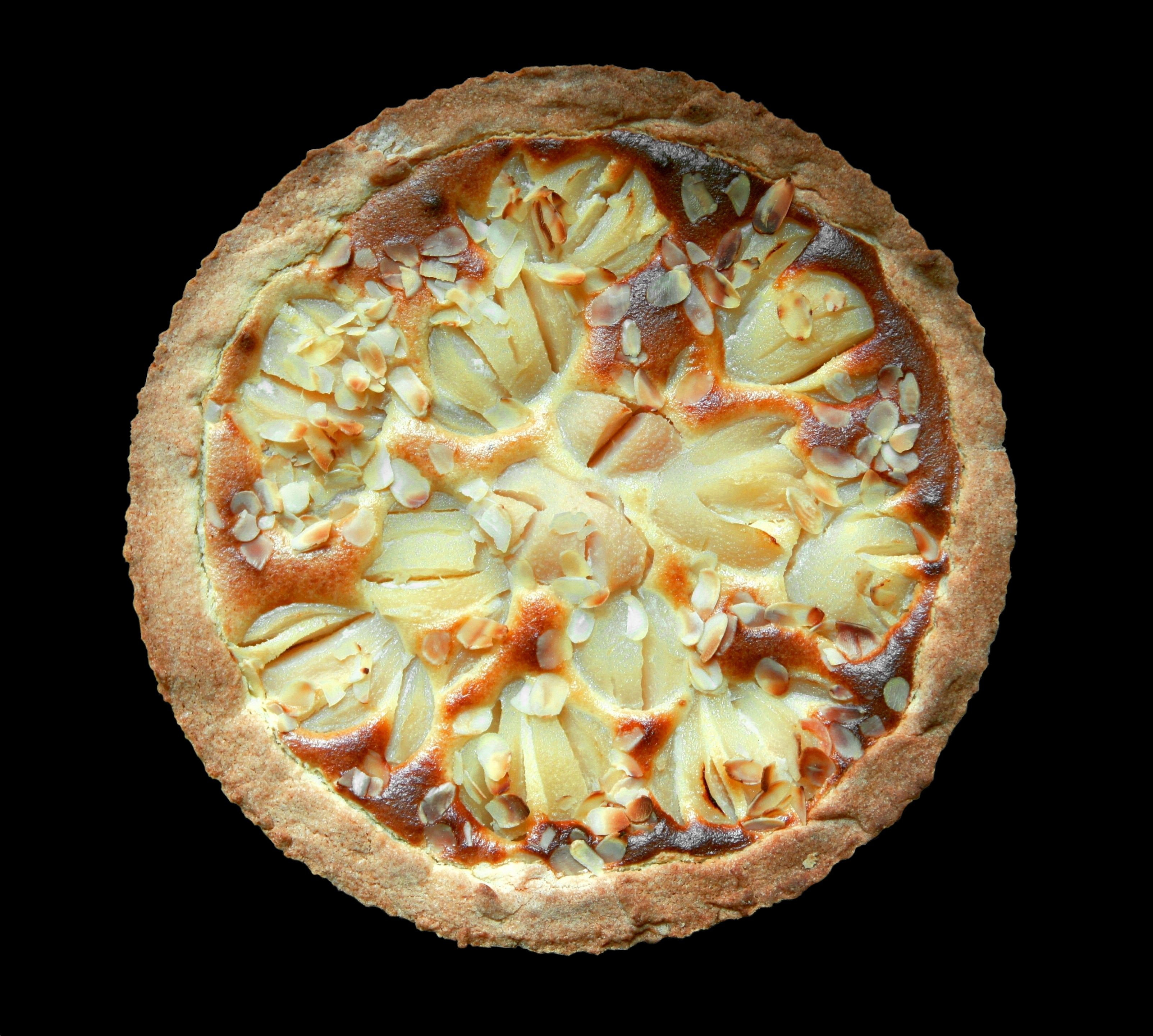 a homemade pear pie, with a cream (almond powder, egg, water), and almonds, typically parisian, called "tarte bourdaloue".